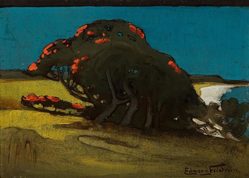 A flaming pöhutukawa with a sun-drenched strand of beach beyond